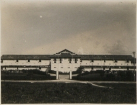 Sarawak General Hospital as seen from main entrance between 1900 to 1930